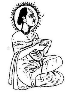 Vallabhacharya